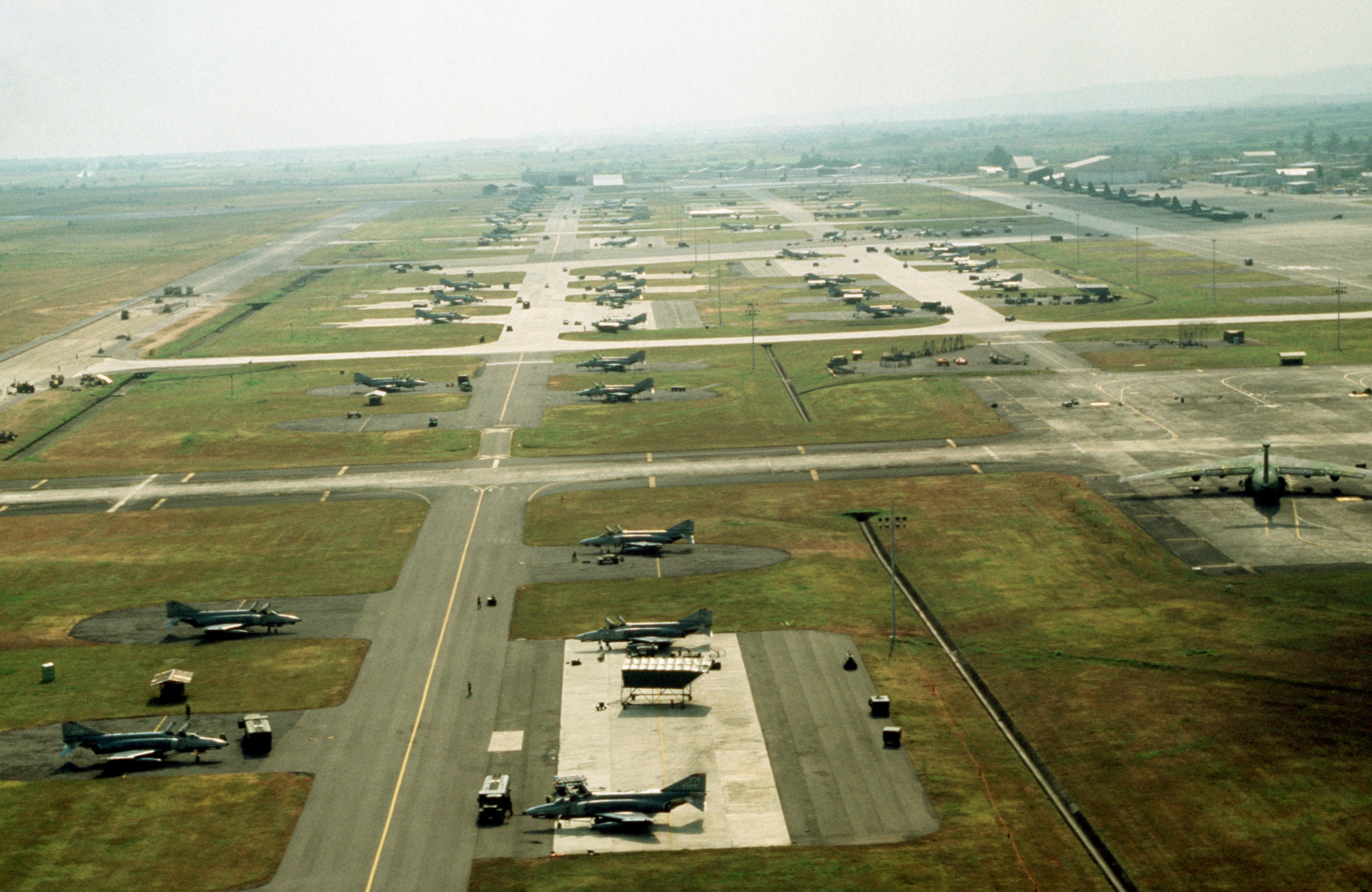 An aerial view of Clark Air Base, Luzon, Philippines, on 1 December 1989. Several U.S. Air Force McDonnell Douglas F-4E & F-4G Phantom II aircraft from the 3rd Tactical Fighter Wing are parked in their dispersal areas. A Lockheed C-141B Starlifter is visible on the right, several Lockheed C-130 Hercules aircraft are parked in the right background.